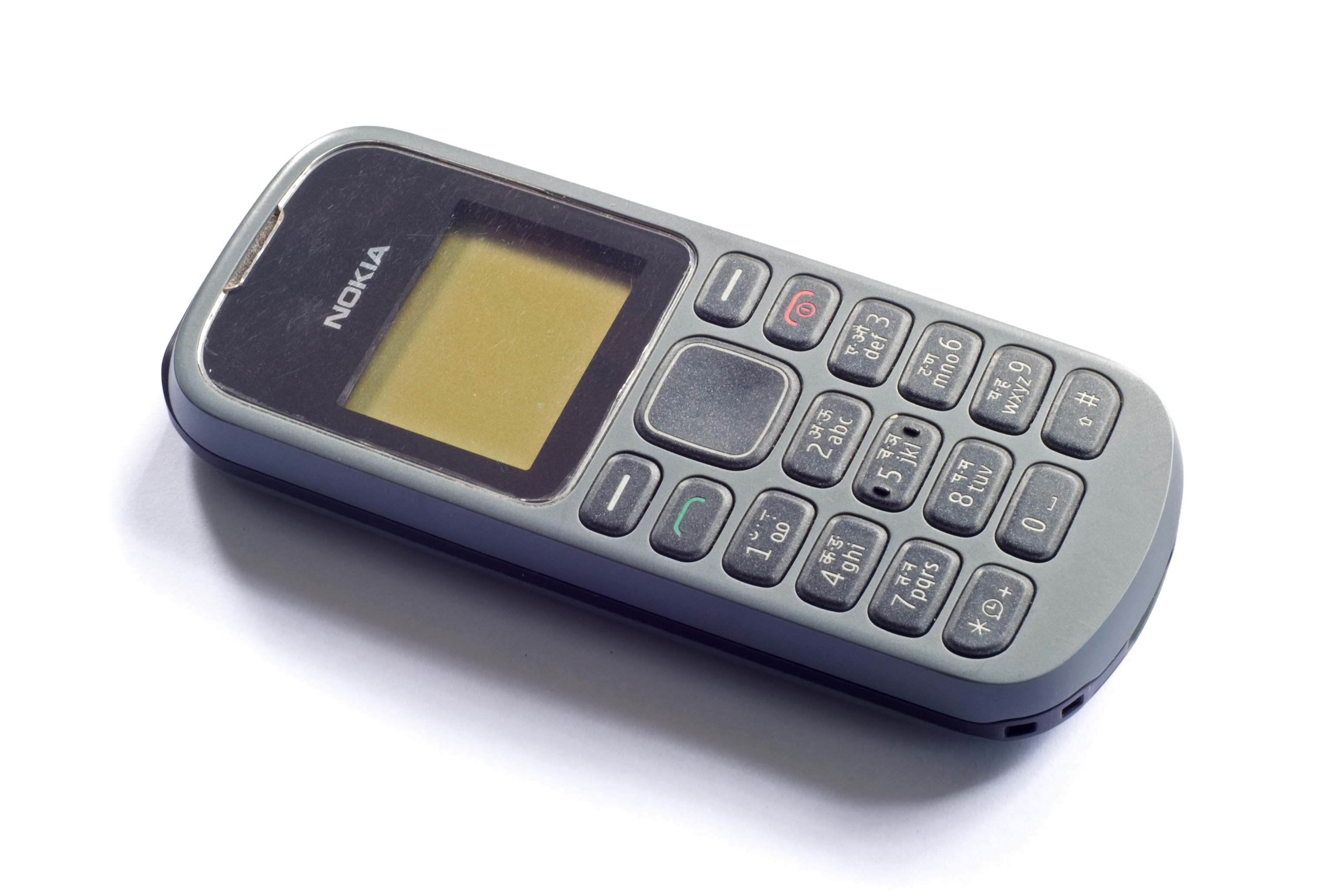 A Nokia 1280 mobile phone.